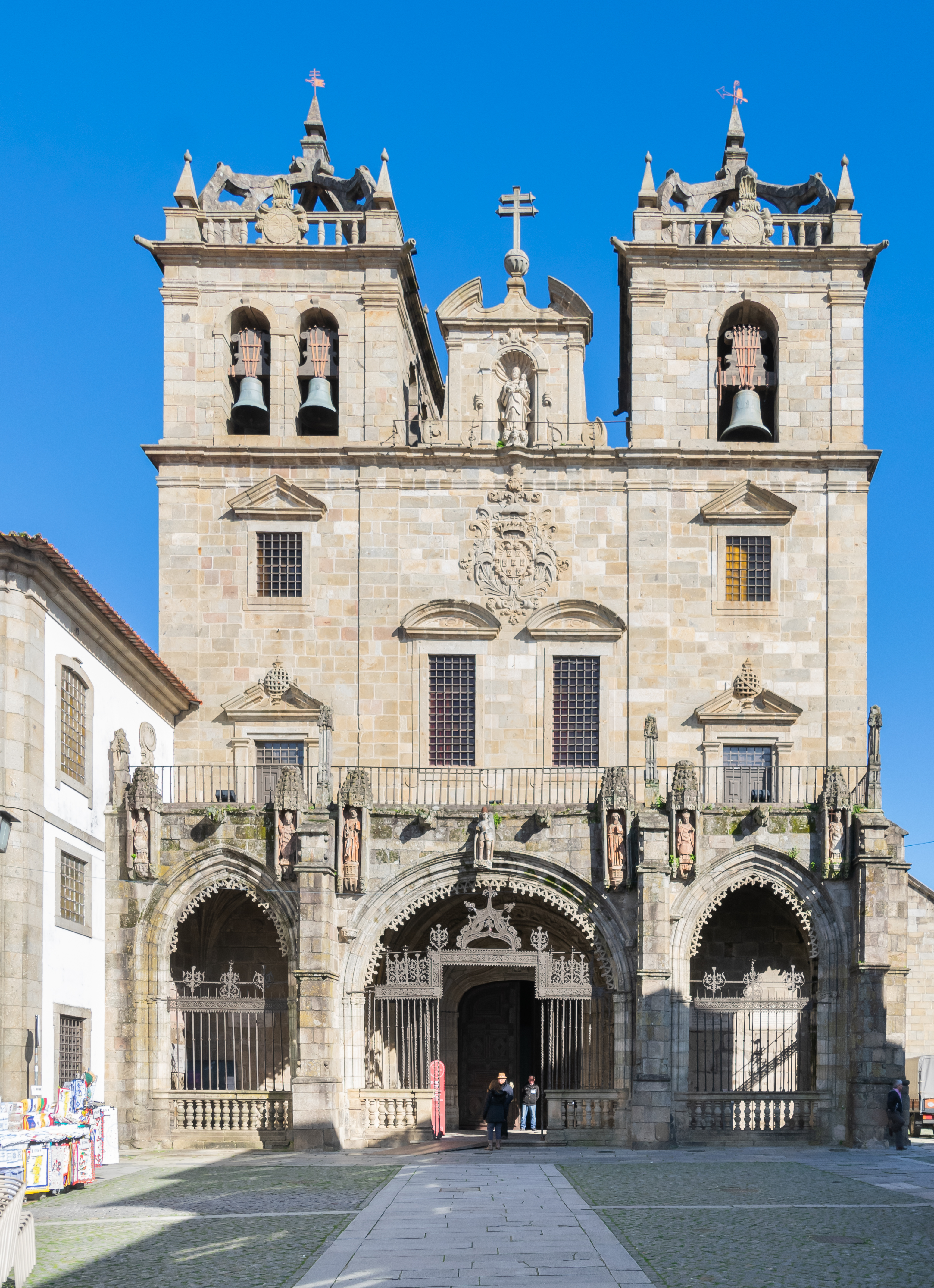 Western facade of the Braga Cathedral, Minho, Portugal This monument is classified as Monumento Nacional.